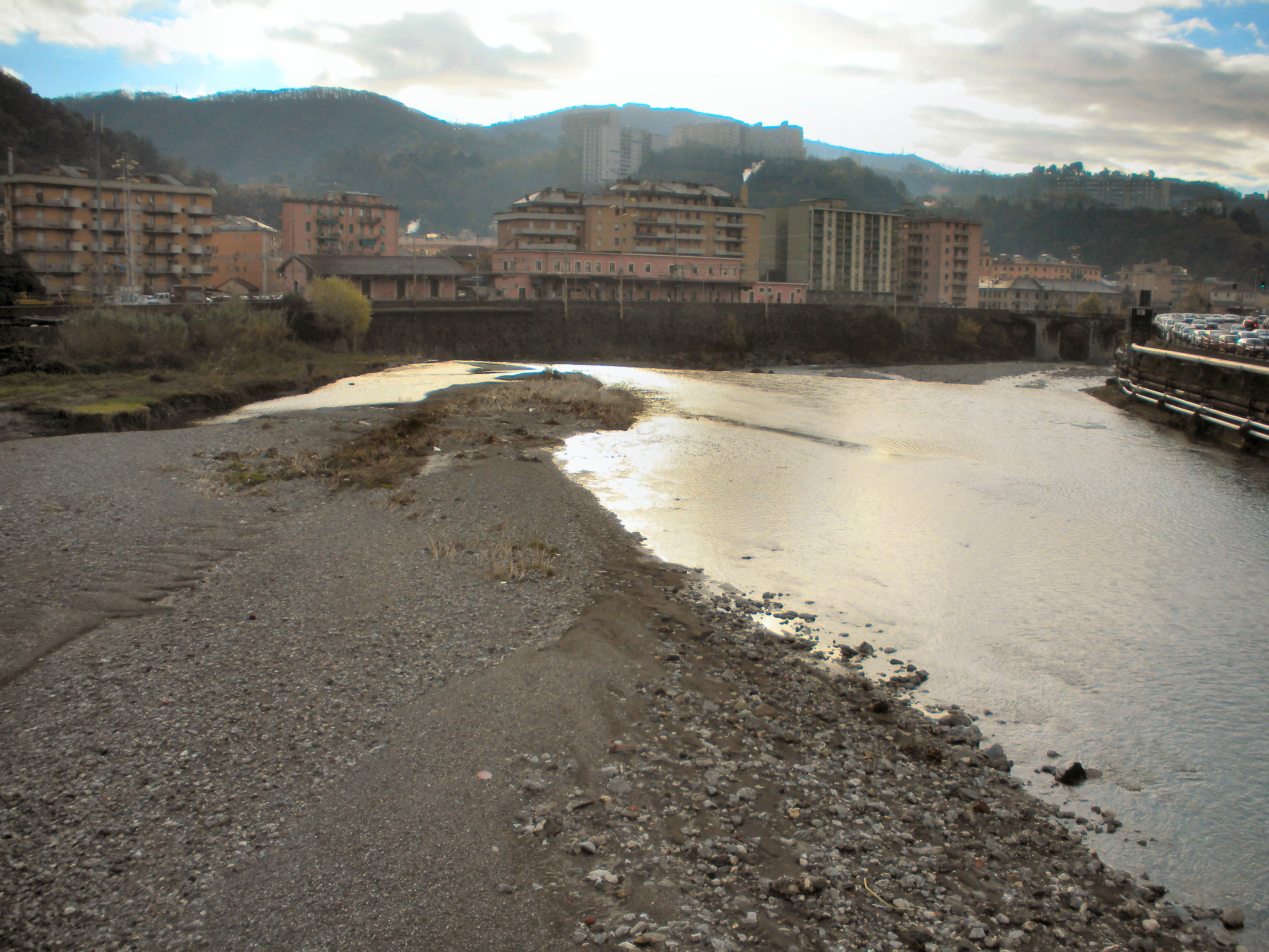 Genoa (Italy), the river Polcevera near the railway station of Bolzaneto